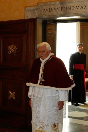 Pope Benedict XVI.